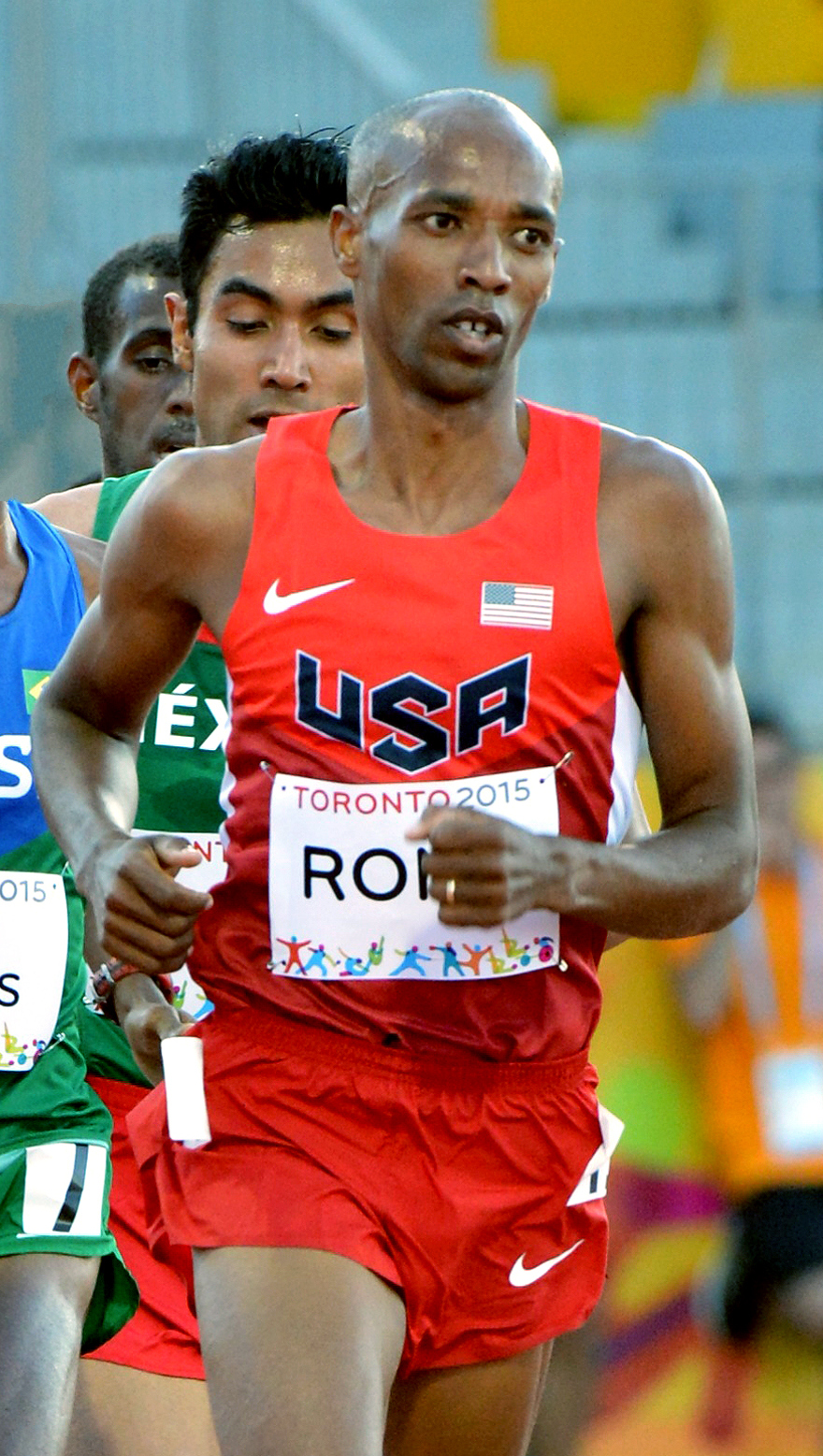 Spc. Aron Rono of the U.S. Army World Class Athlete Program and Team USA/WCAP teammate Spc. Shad Kipchirchir bookend the lead pack of runners in the waning laps of the men's 10,000 meters at the 2015 Pan American Games in Toronto on July 21. Rono took the silver medal with a time of 28 minutes, 50.83 seconds and Kipchirchir finished fourth in 29:01.55. Ahmed Mohammed (28:49.96) of Canada won the race and Juan Luis Barrios (28:51.57) of Mexico took the bronze. U.S. Army photo by Tim Hipps, IMCOM Public Affairs